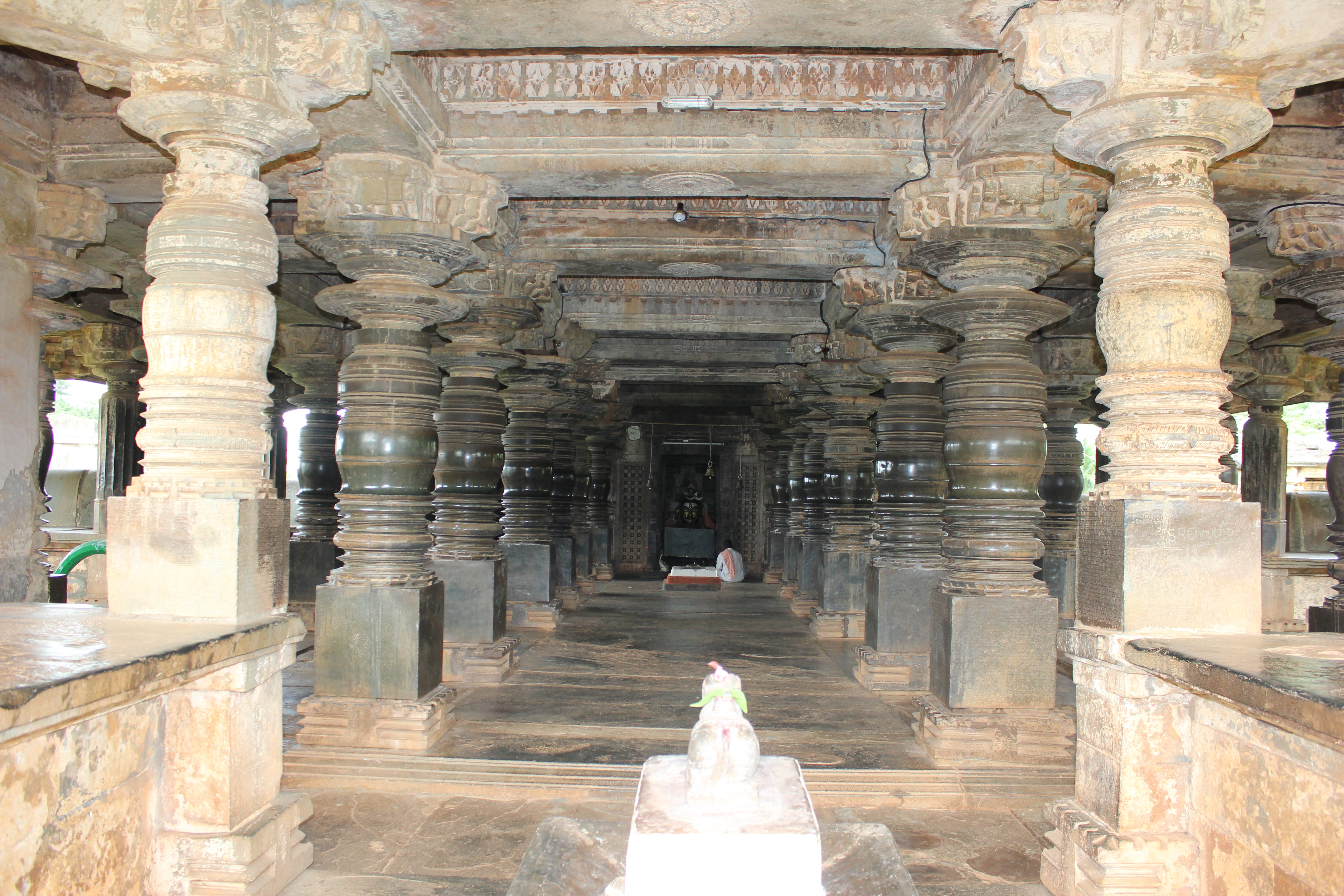 This photograph was taken by me at the Kaitabhesvara (also spelt Kaitabheshvara or Kaitabheshwara) temple in Kubatur (also spelt Kubattur or called Kotipura) in the Shivamogga district (Shimoga), Karnataka state, India. The temple was built around 1100 AD during the reign of Hoysala King Vinayaditya, a feudatory of the Western Chalukya emperor Vikramaditya VI. The architectural style is very Chalukyan.